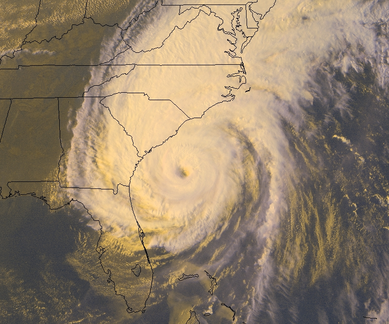 Hurricane Floyd to the east of Georgia